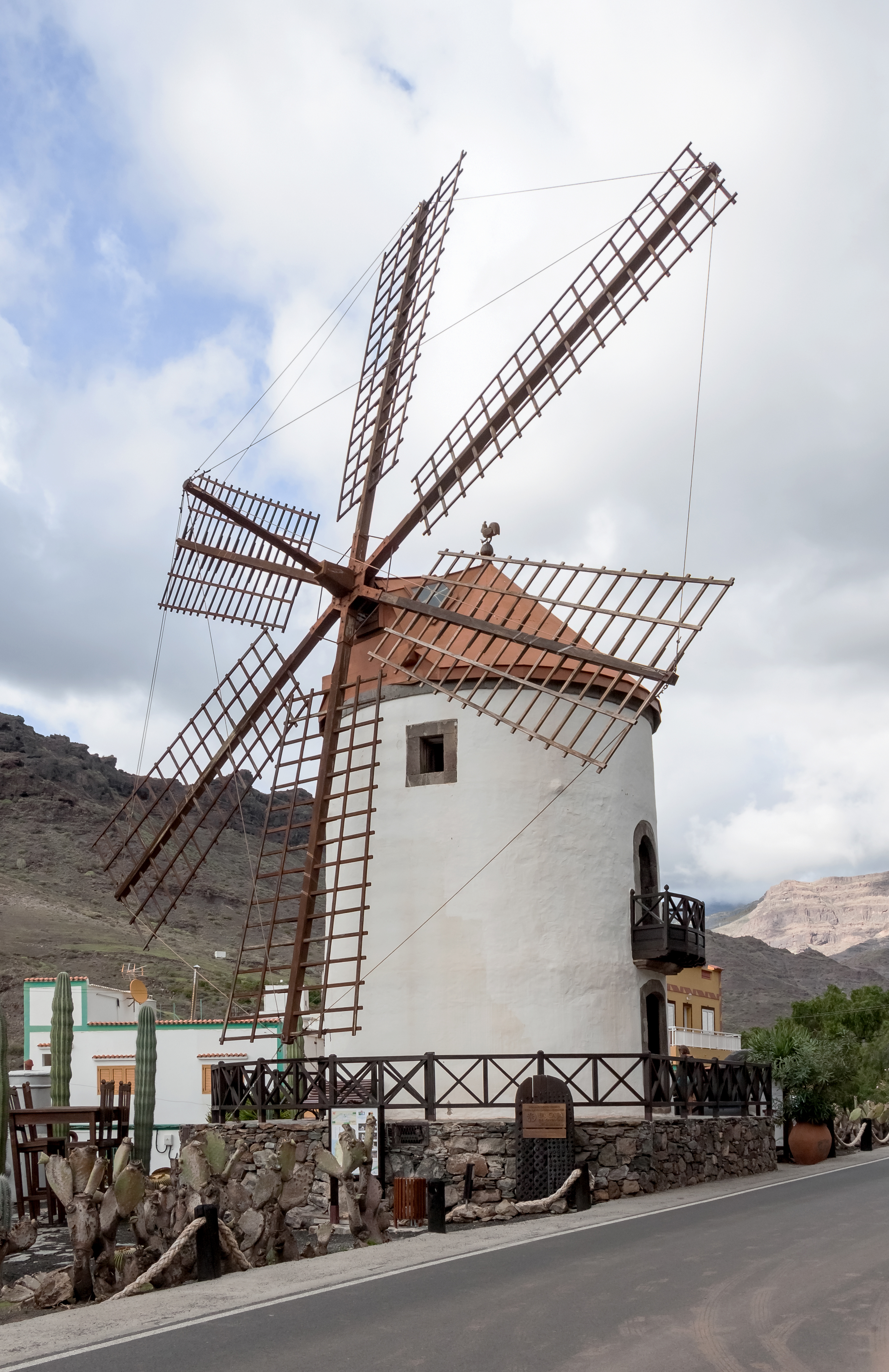 Molino de Viento, Mogán, Gran Canaria, Canary Islands, Spain.